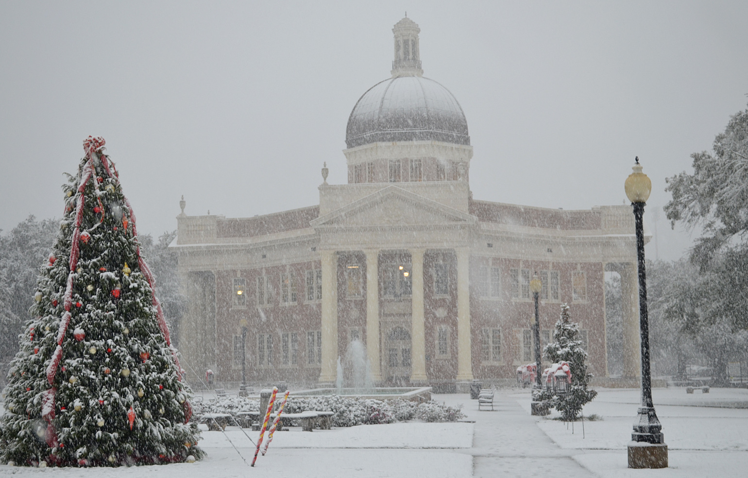 Aubrey K. Lucas Administration Building, University of Southern Mississippi